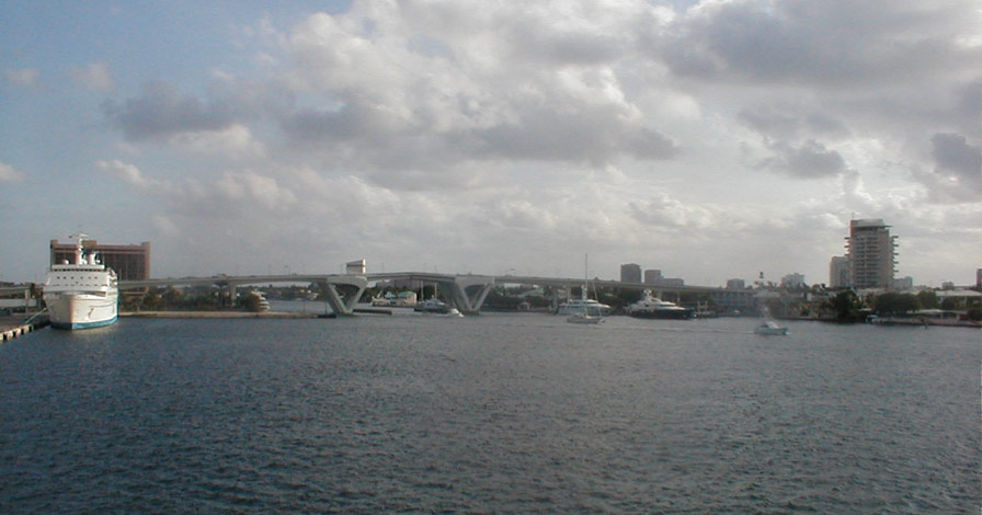 Photo taken by Tv's emory in April 2002.